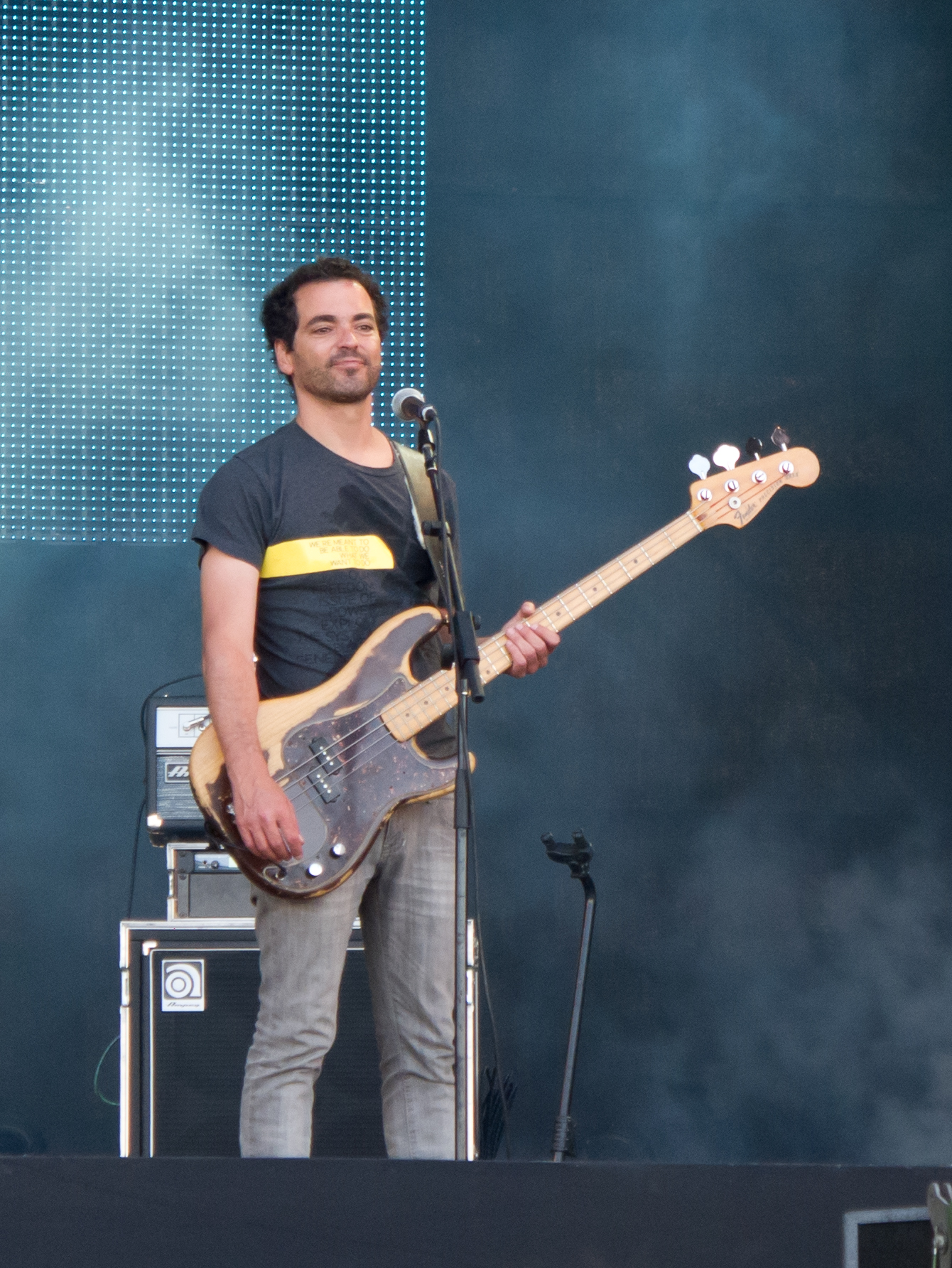 La oreja de Van Gogh in Rock in Rio Madrid 2012.